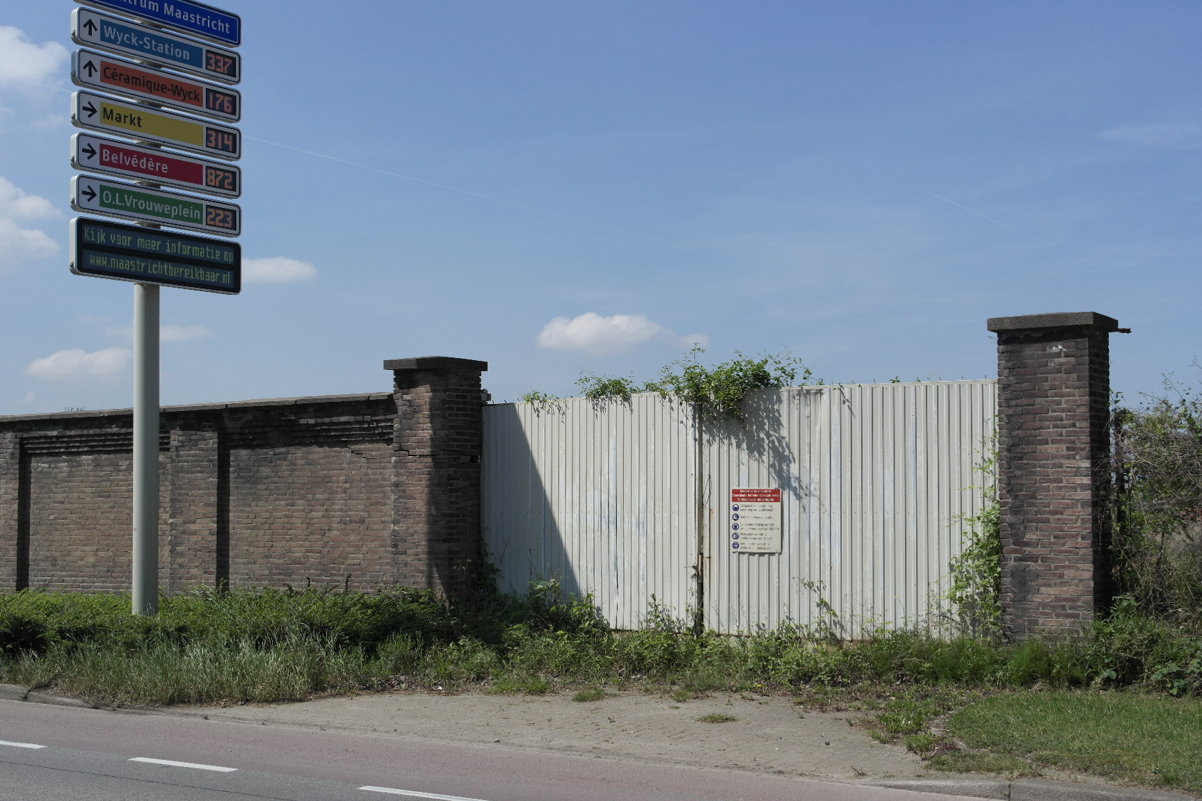 Maastricht-Limmel, the Netherlands, View of the factory wall around the former Trega factory site along Willem Alexanderweg in the neighbourhood of Limmel.